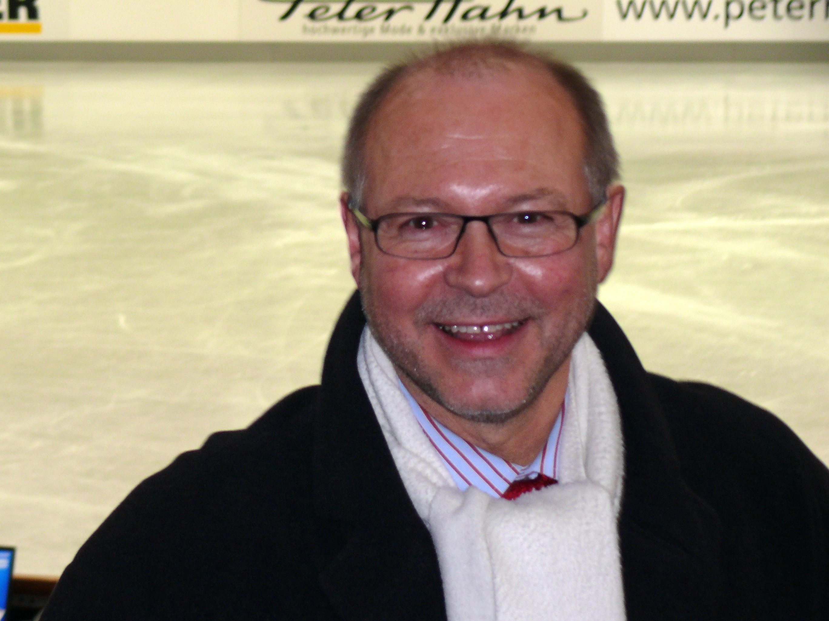 Reinhard Ketterer at the German Figure Skating Championships 2009 in Oberstdorf